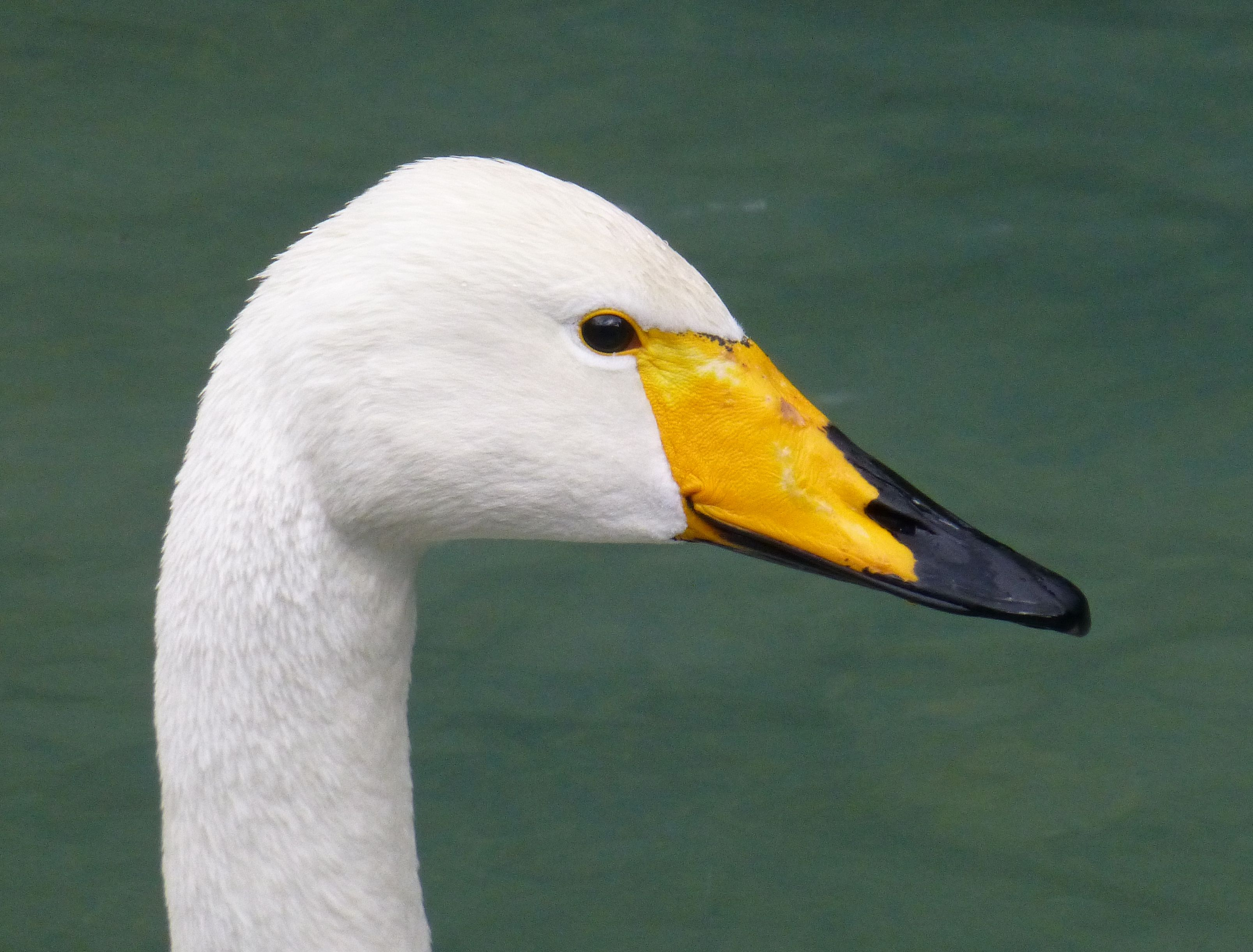 Whooper Swan (Cygnus cygnus) in the Cumberland zoo in Grünau, Almtal, Upper Austria, Austria